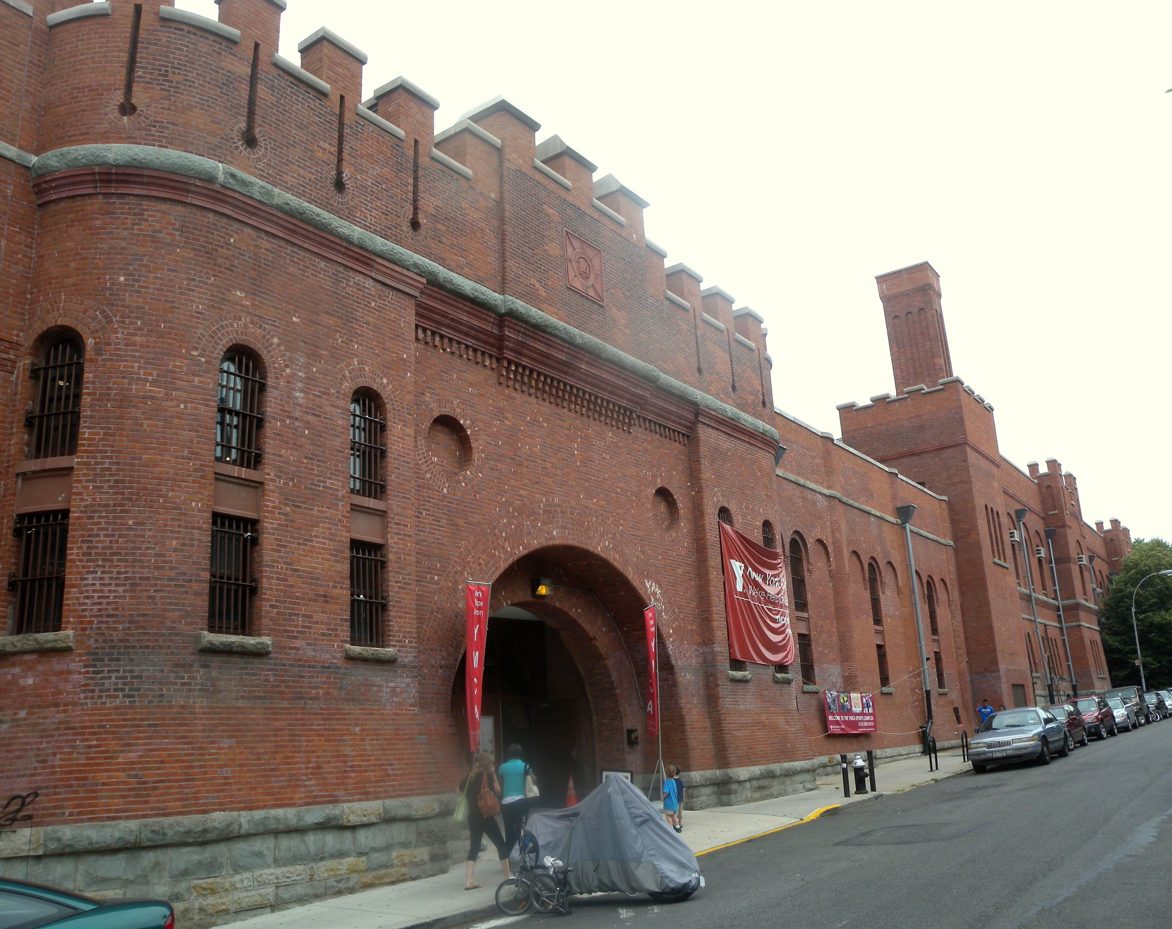 Looking east at southwest gate of 13th Regiment Armory on a cloudy day.